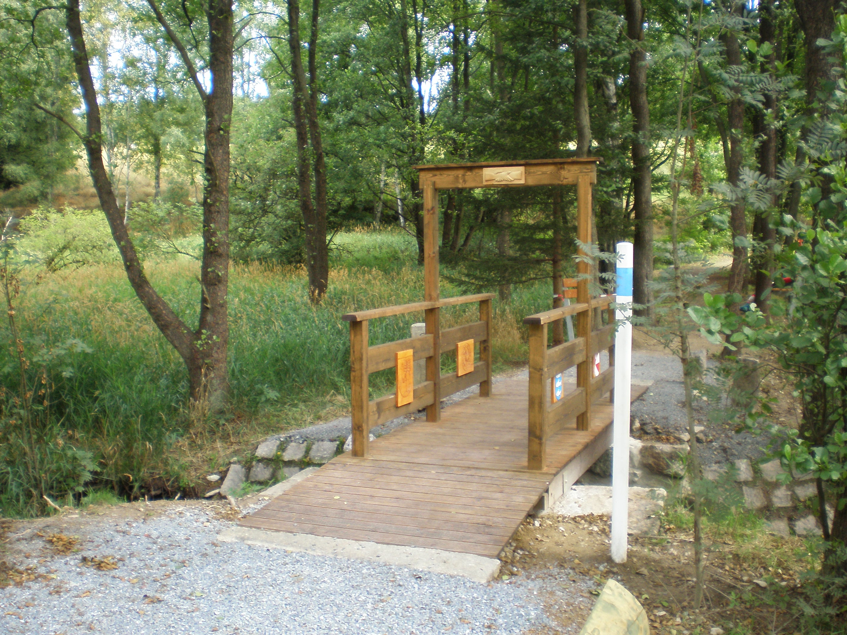 Europa Bridge, Újezd, Czech Republic